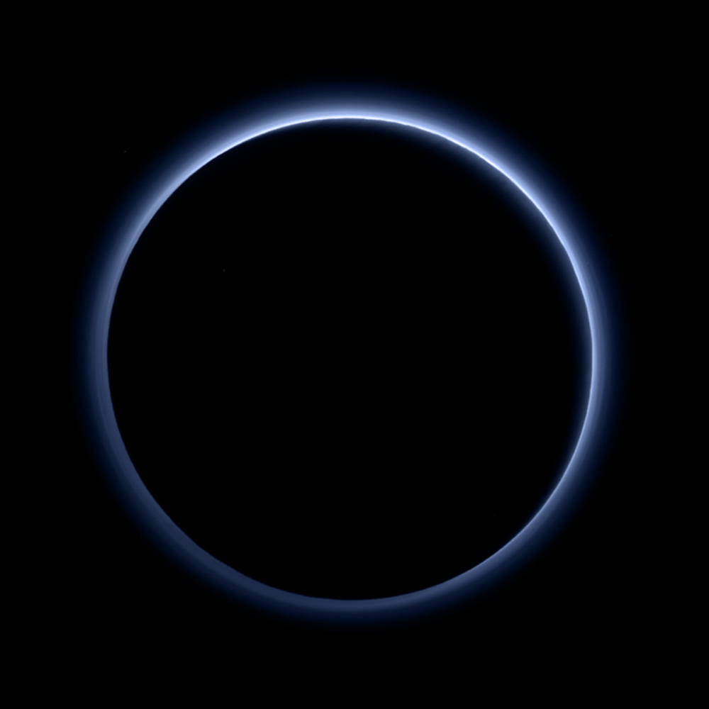 A near-true-colour image of Pluto's bluish hazes taken by New Horizons. Original caption: Pluto’s Blue Sky: Pluto’s haze layer shows its blue color in this picture taken by the New Horizons Ralph/Multispectral Visible Imaging Camera (MVIC). The high-altitude haze is thought to be similar in nature to that seen at Saturn’s moon Titan. The source of both hazes likely involves sunlight-initiated chemical reactions of nitrogen and methane, leading to relatively small, soot-like particles (called tholins) that grow as they settle toward the surface. This image was generated by software that combines information from blue, red and near-infrared images to replicate the color a human eye would perceive as closely as possible.